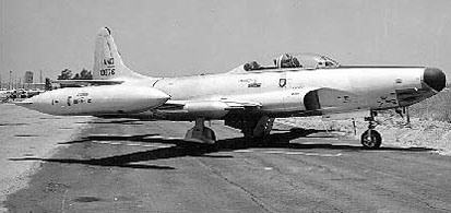 Lockheed F-94B (S/N 50-876). Note the pod-mounted guns on the wing.